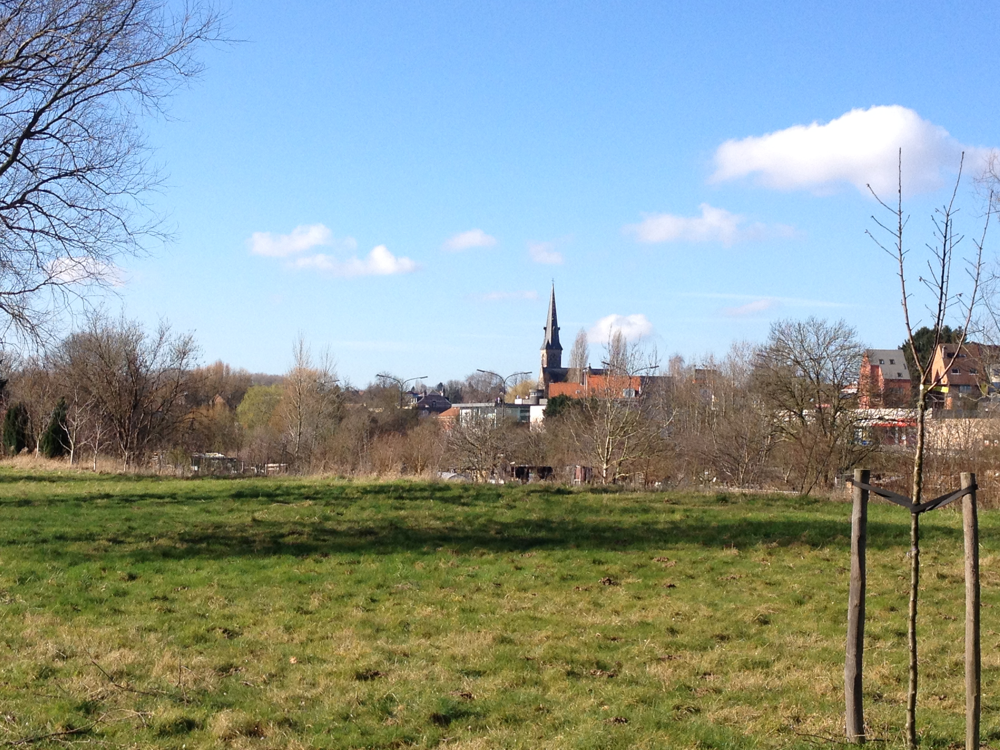 Zicht op dorpskern